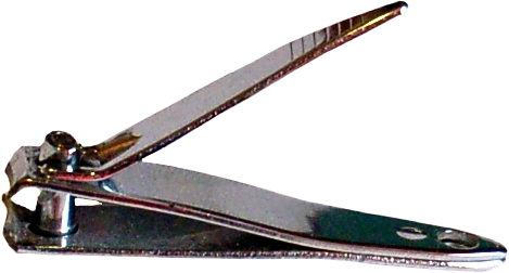 Nail Cutter